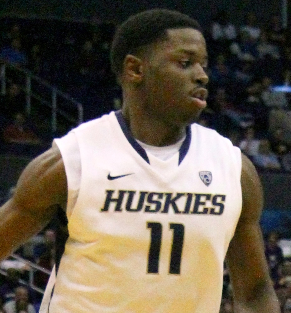 University of Washington basketball player Matthew Bryan-Amaning at the 2011 Pac-10 Tournament.